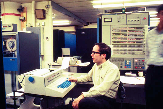 Computing Center staff member Mike Alexander sitting at the console of the IBM S/360 Model 67 Duplex mainframe computer at the North University Building on the main campus of the University of Michigan in Ann Arbor, Michigan, USA sometime between 1968 and 1971.